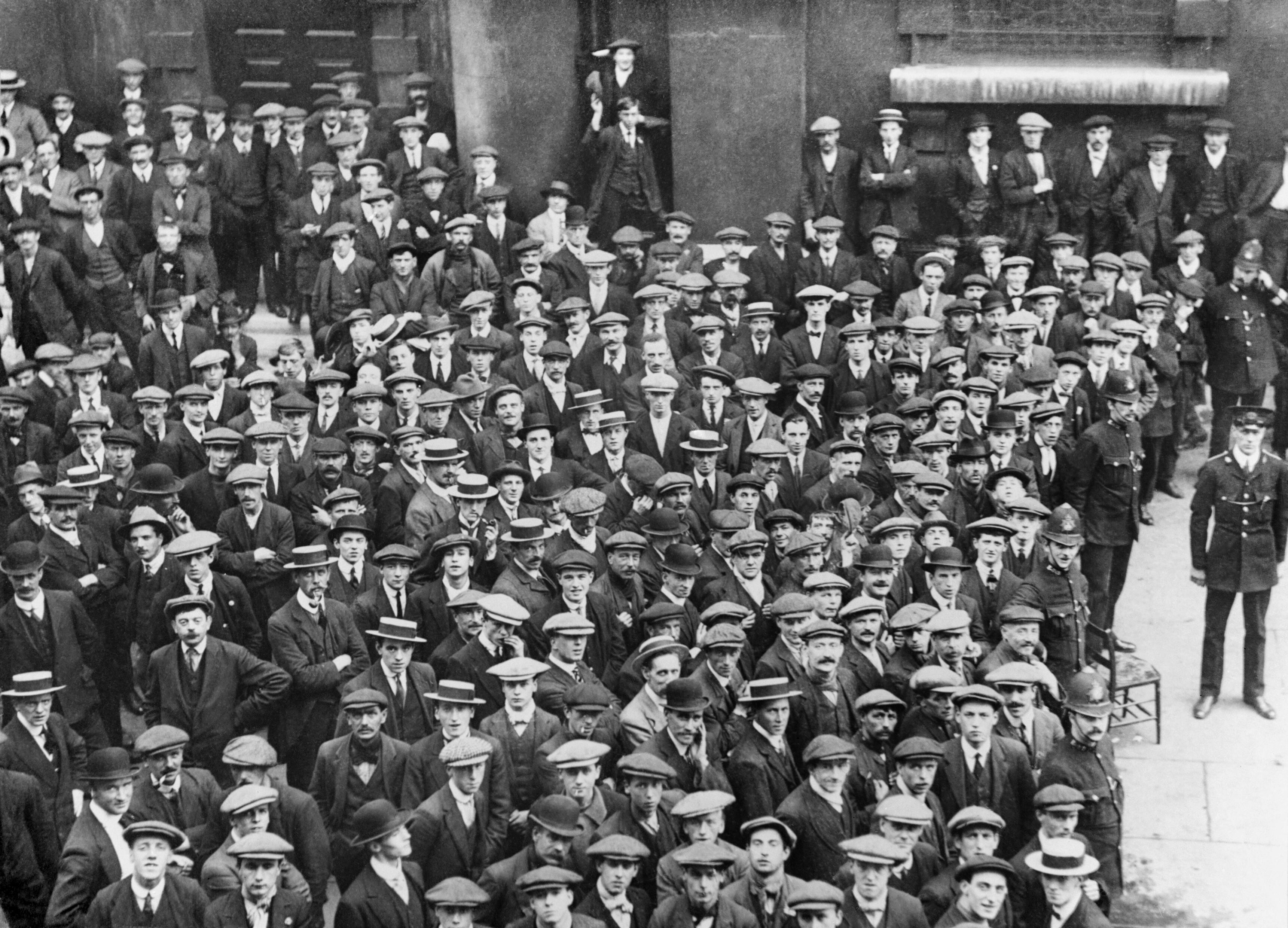 British volunteers for "Kitchener's Army" waiting for their pay in the churchyard of St. Martin-in-the-Fields, Trafalgar Square, London.